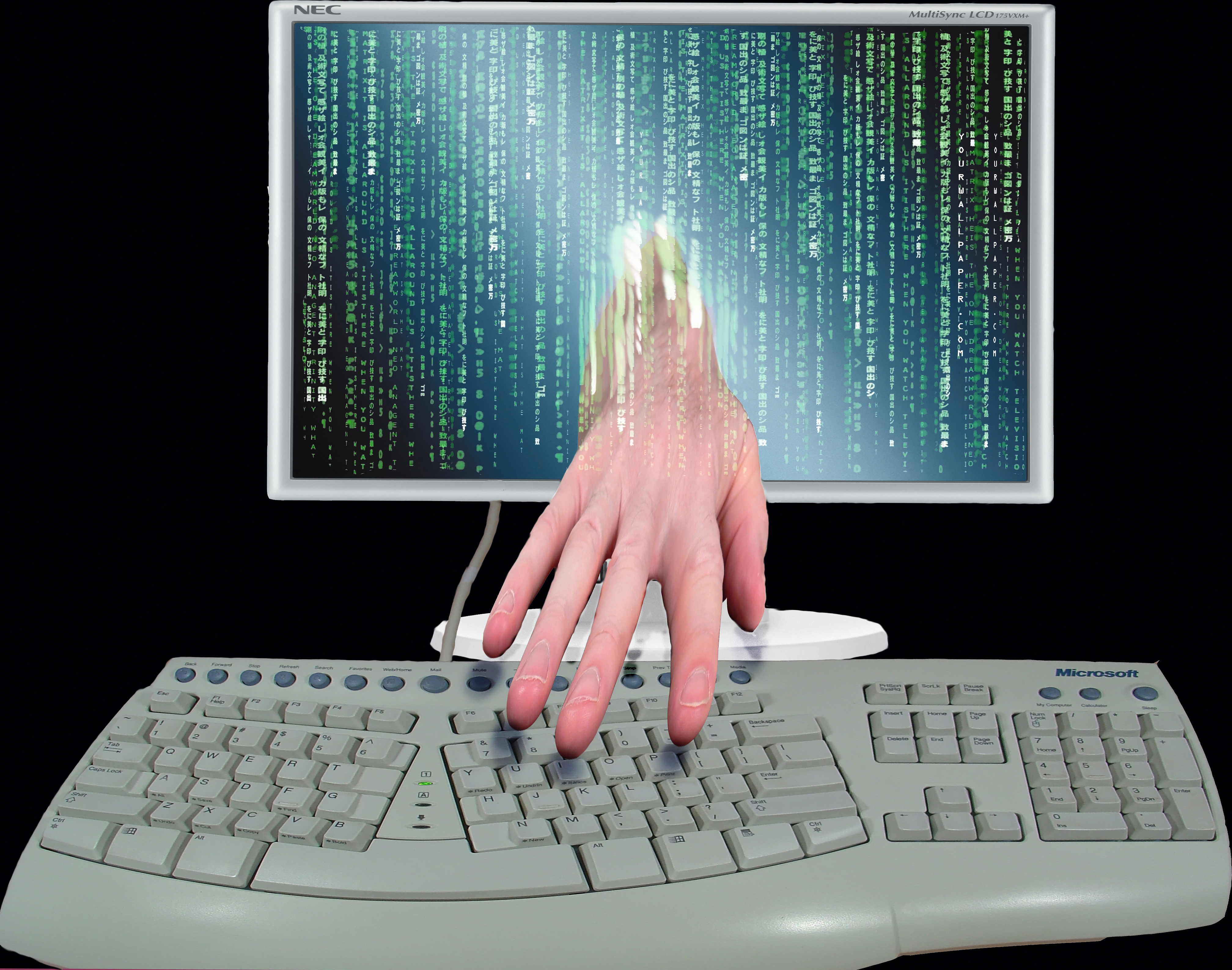 "Credit Card Theft". Dramatic image of hand reaching through monitor to keyboard